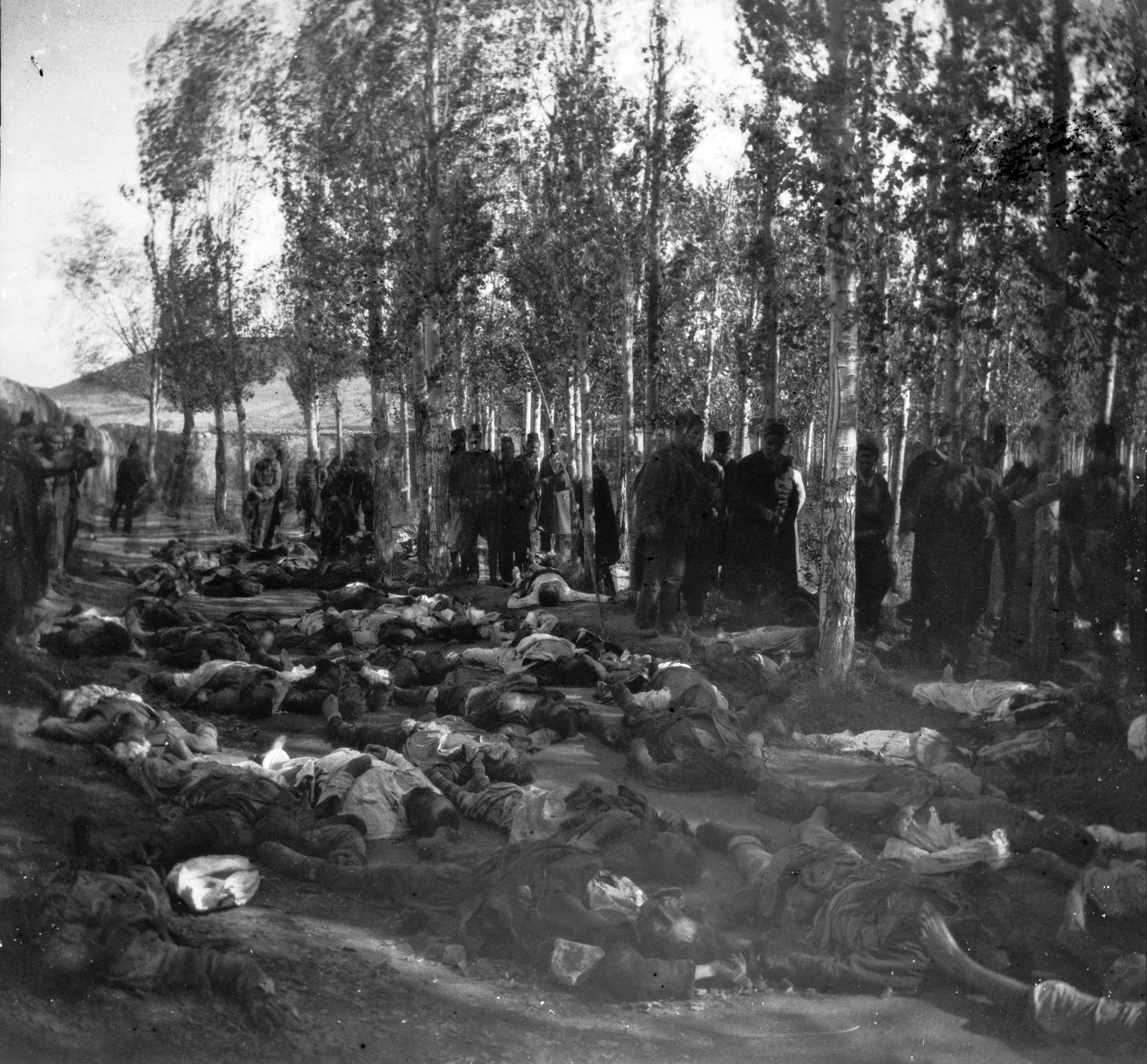 A photograph, taken by the American W. L. Sachtleben, depicting the victims of a massacre of Armenians in Erzerum on October 30, 1895, being gathered for burial at the town's Armenian cemetery. "What I myself saw this Friday afternoon [November 1] is forever engraven on my mind as the most horrible sight a man can see. I went with one of the cavasses of the English Legation, a soldier, my interpreter, and a photographer (Armenian) to the Armenian Gregorian cemetery. The municipalty had sent down a number of bodies, friends had brought more, and a horrible sight met my eyes. Along the wall on the north .... lay 321 dead bodies of the massacred Armenians. Many were fearfully mangled and mutilated. I saw one with his face completely smashed in with a blow of some heavy weapon after he was killed. I saw some with their necks almost severed by a sword cut. One I saw whose whole chest had been skinned, his forearms were cut off, while the upper arm was skinned of flesh. I asked if the dogs had done this. 'No, the Turks did it with their knives'. A dozen bodies were half burned." ... "A crowd of a thousand people, mostly Armenians, watched me taking photographs of their dead. Many were weeping beside their dead fathers or husbands." W. L. Sachtleben, "Letter to the Editor", the London Times, December 14th 1895 (quoted in G. Aivazian, "Sachtleben Papers on Erzurum", in "Armenian Karin/Erzurum", ed R. G. Hovannisian).